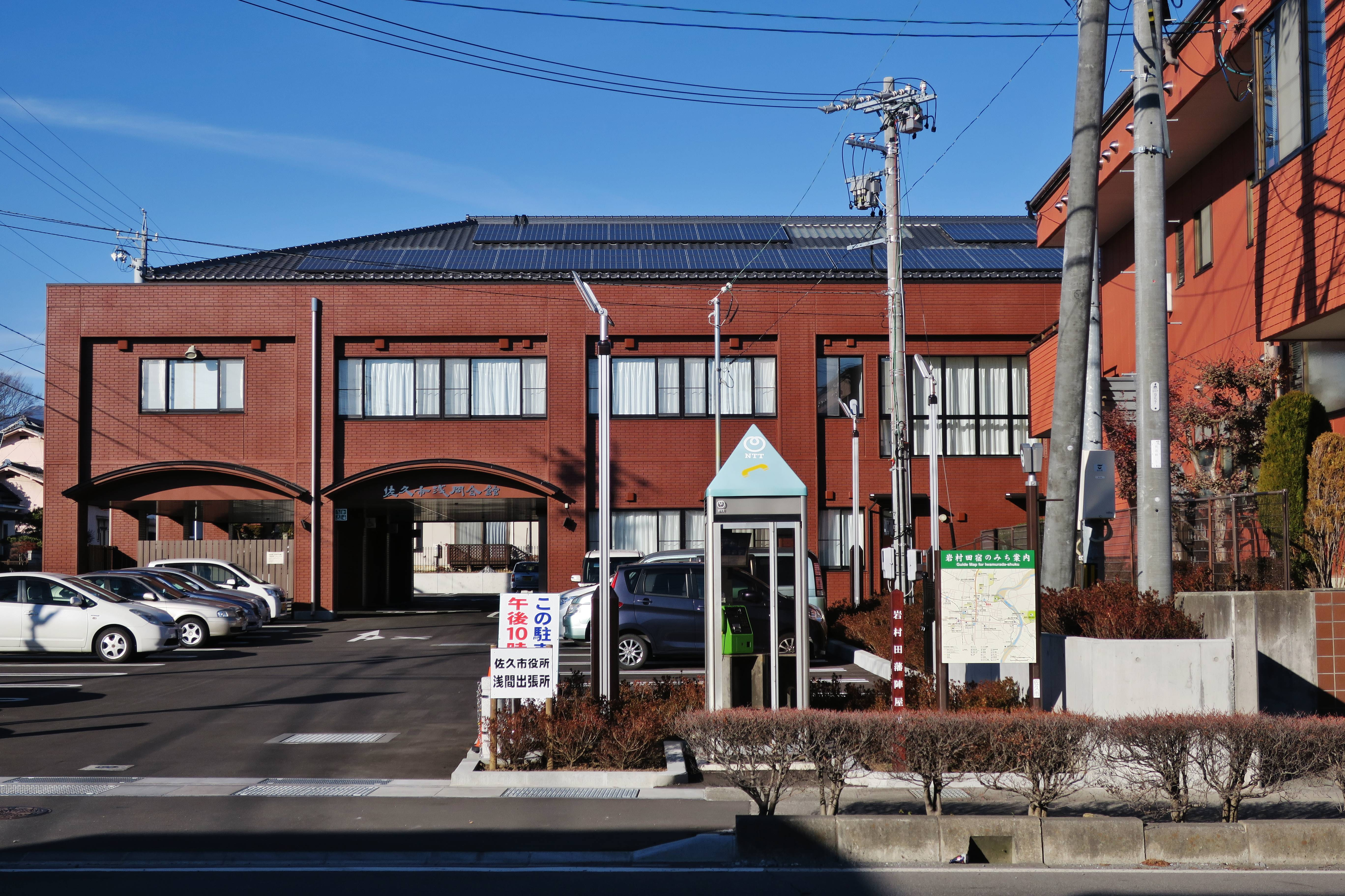 Asama Kaikan (Saku, Nagano).